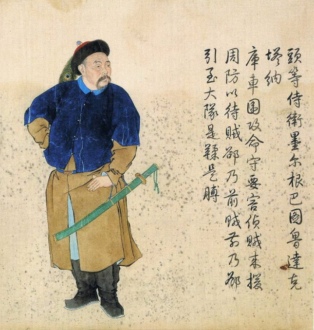 Daktana / chin. Daketana (达克塔纳 da ke ta na ), was an officer of the Qing Army.